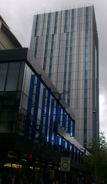 Arthur Swift & Partners (1961-64), Refurbished 2011-12 by Ryder Architecture. Now known as the Premier Inn Glasgow Buchanan Galleries